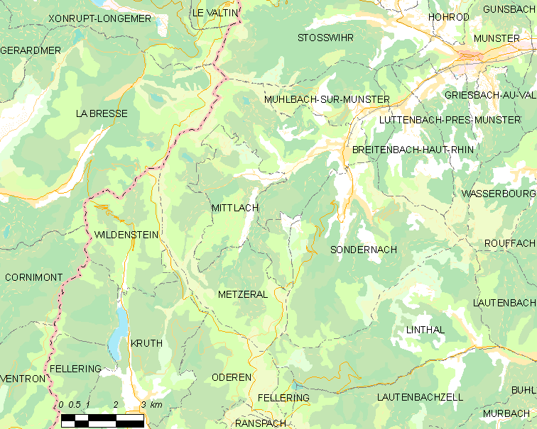 Map of French municipality